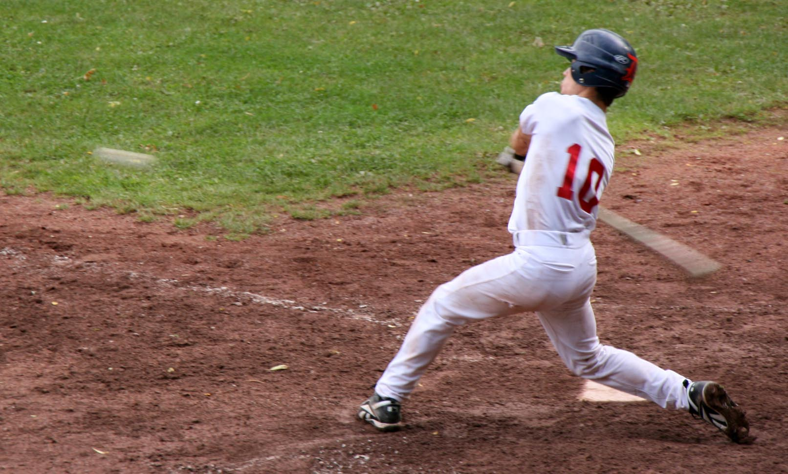 Hit !